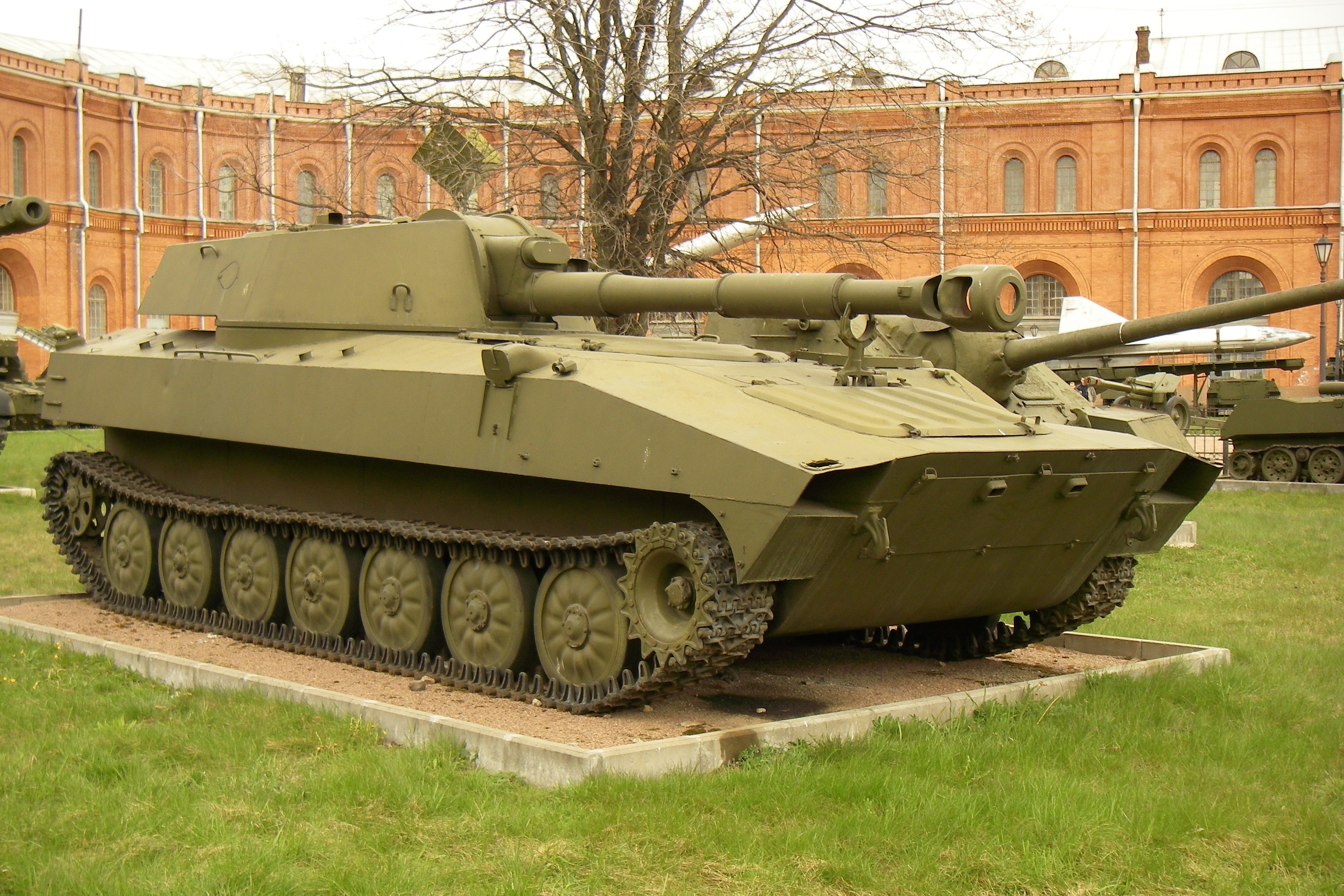 122-mm self-propelled howitzer 2S1 «Gvozdika» in Saint-Petersburg Artillery museum